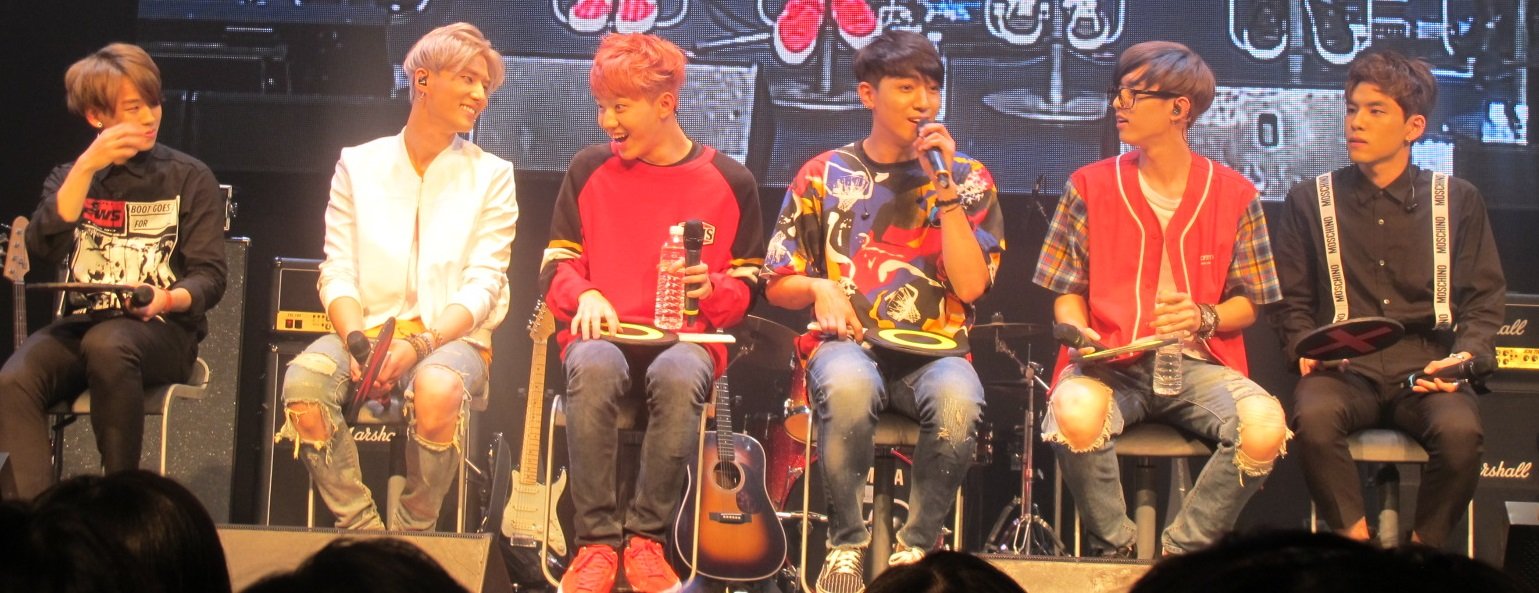 DAY6 in "The Day" Taiwan Showcase, 2015